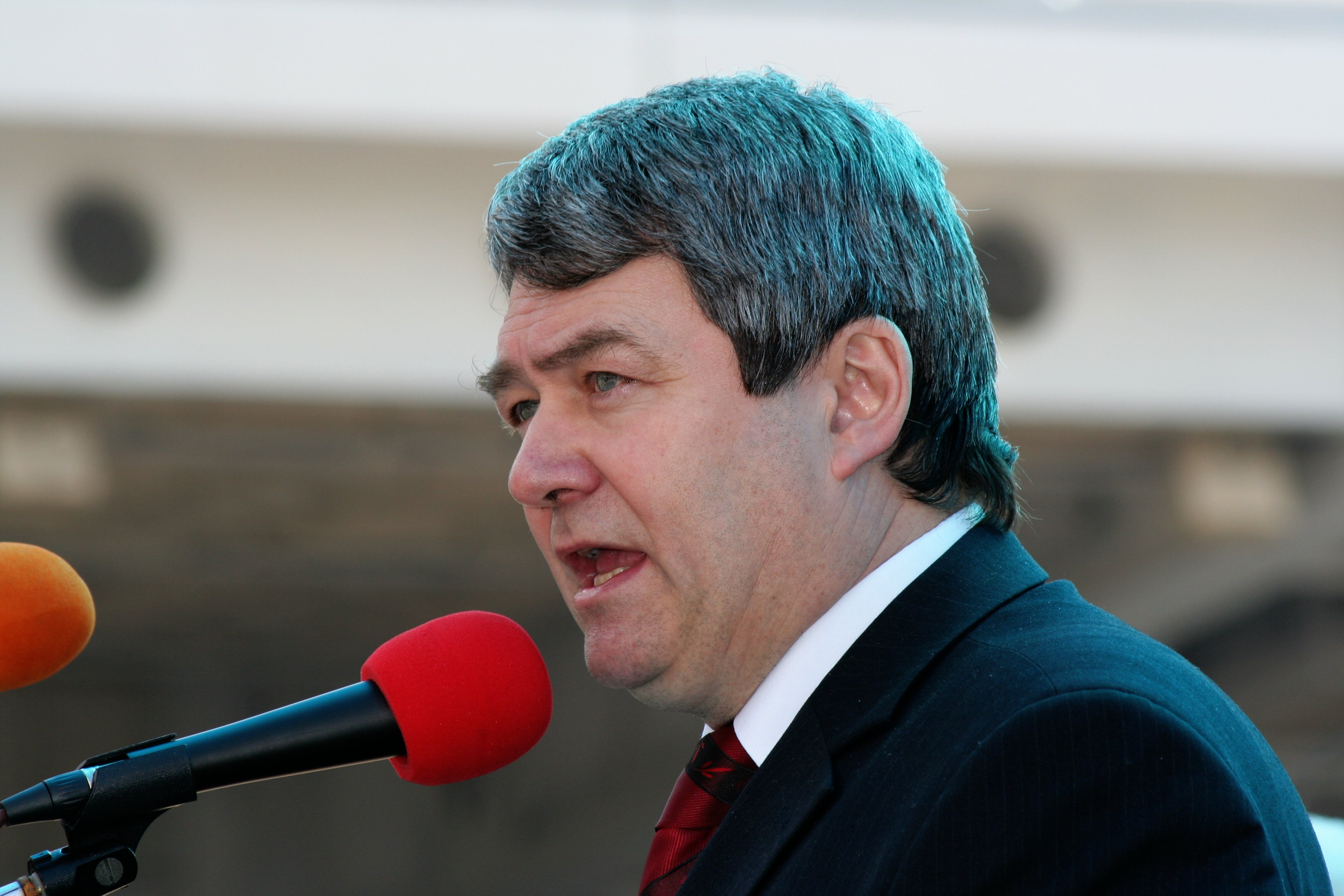 Czech Communist chairman Vojtěch Filip speaking to his faithful on May 1st, 2006; his hair look blue because of the tent under which he was standing